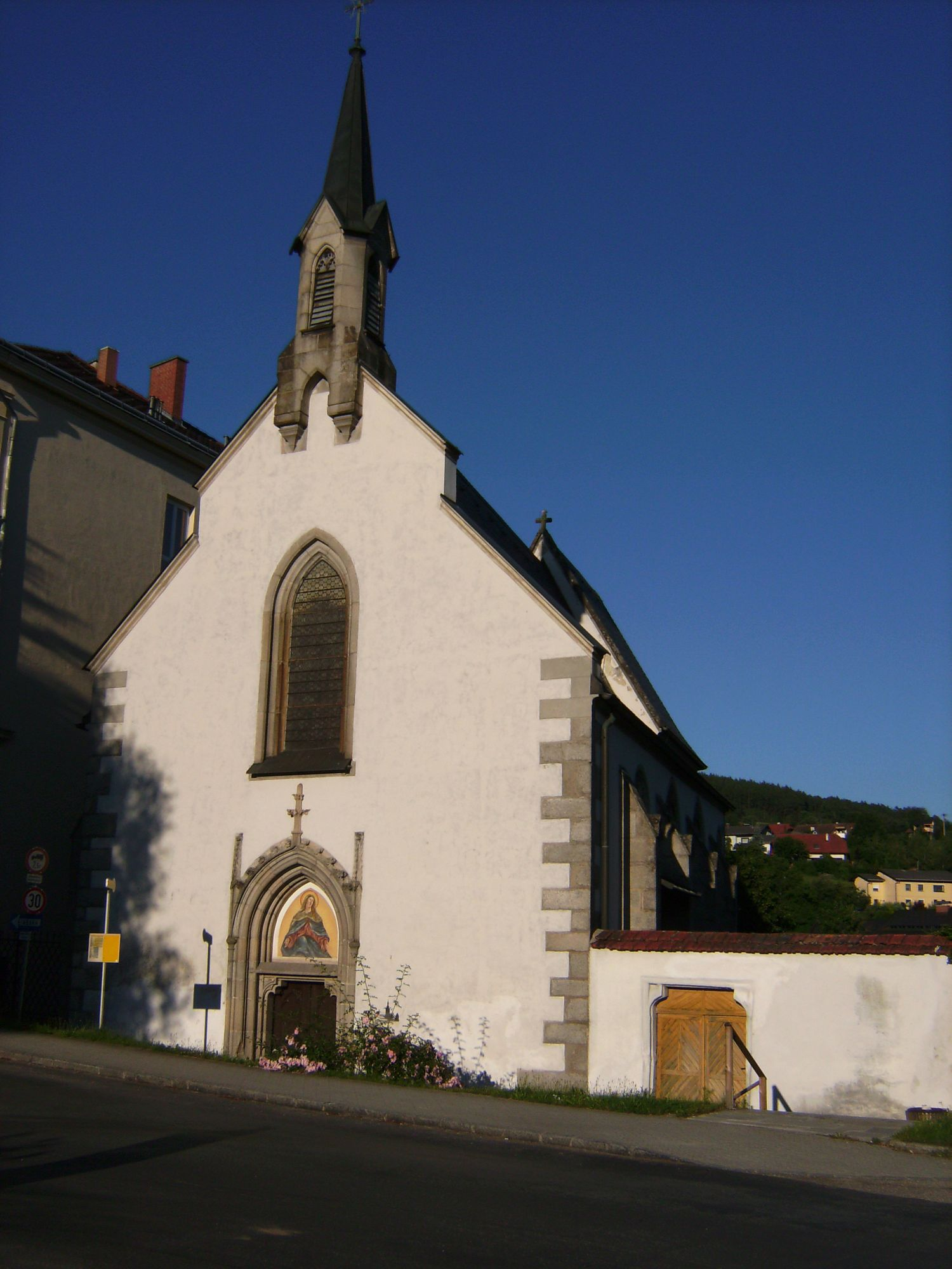 Liebfrauenkirche Freistadt